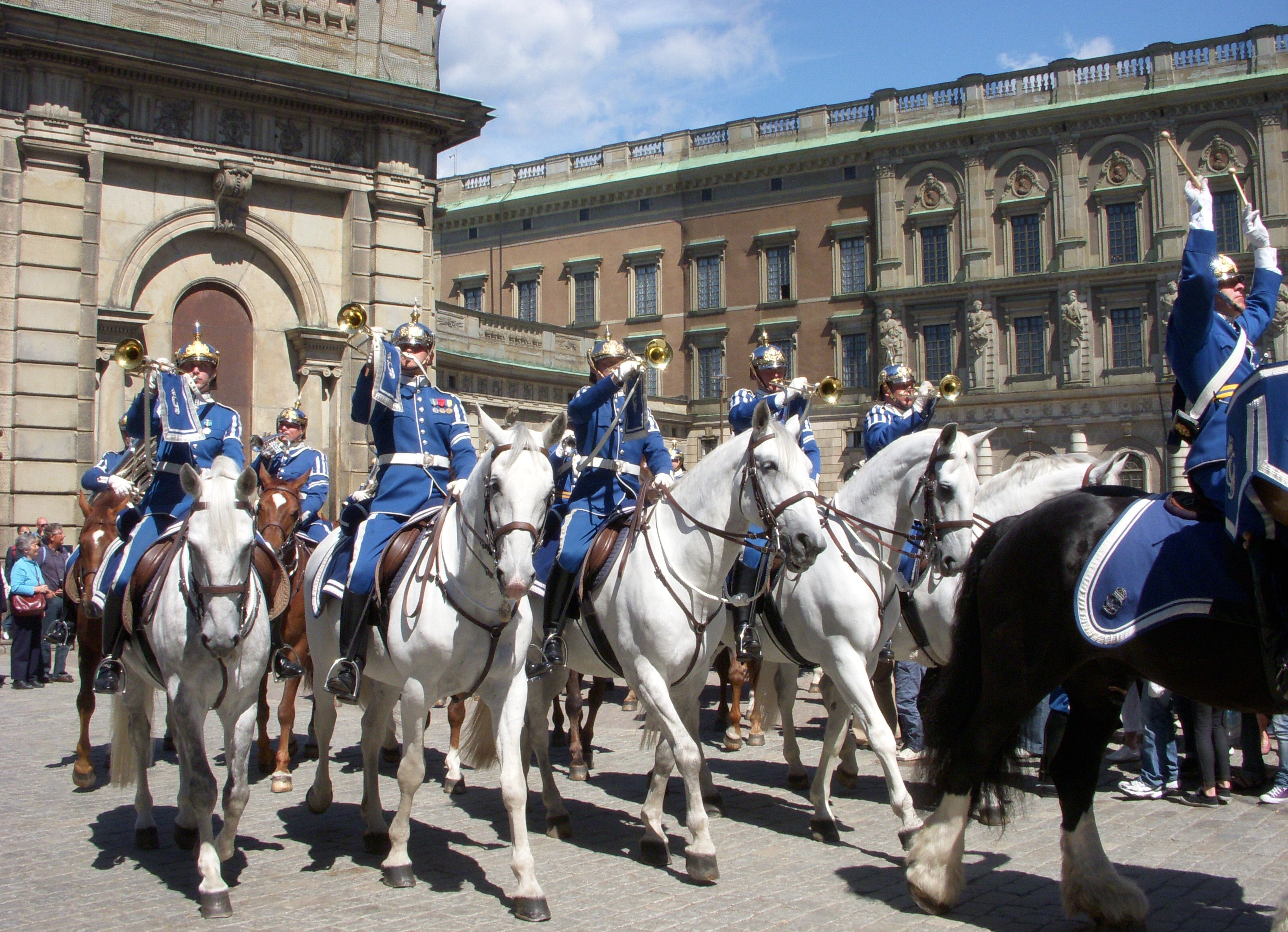 Royal Guard at Royal Palace, Stockholm